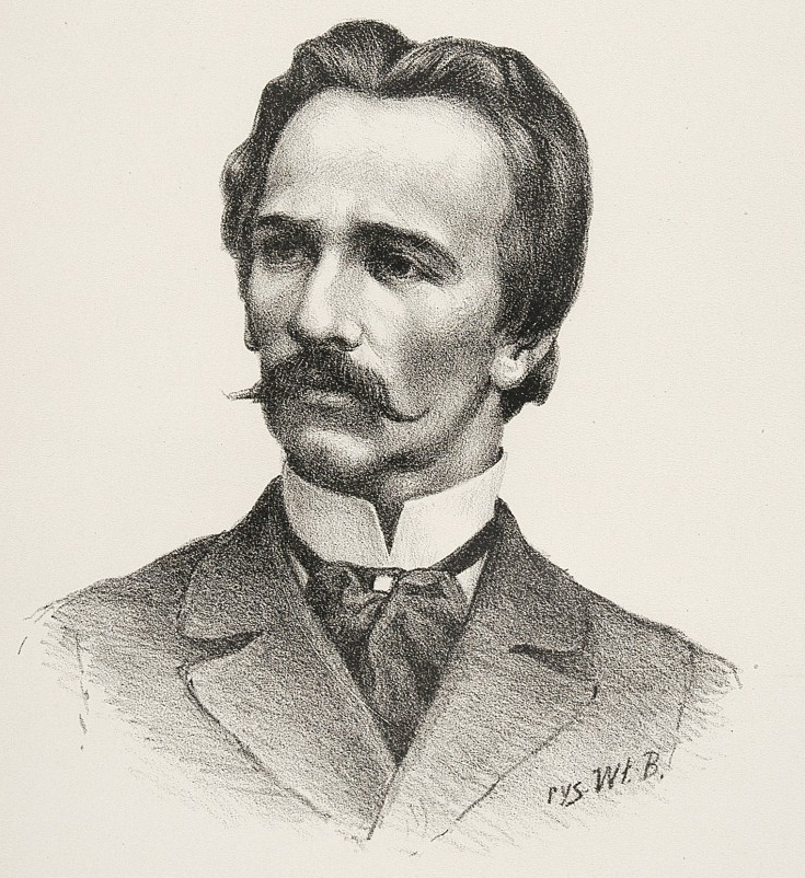 Artur Oppman - Polish poet